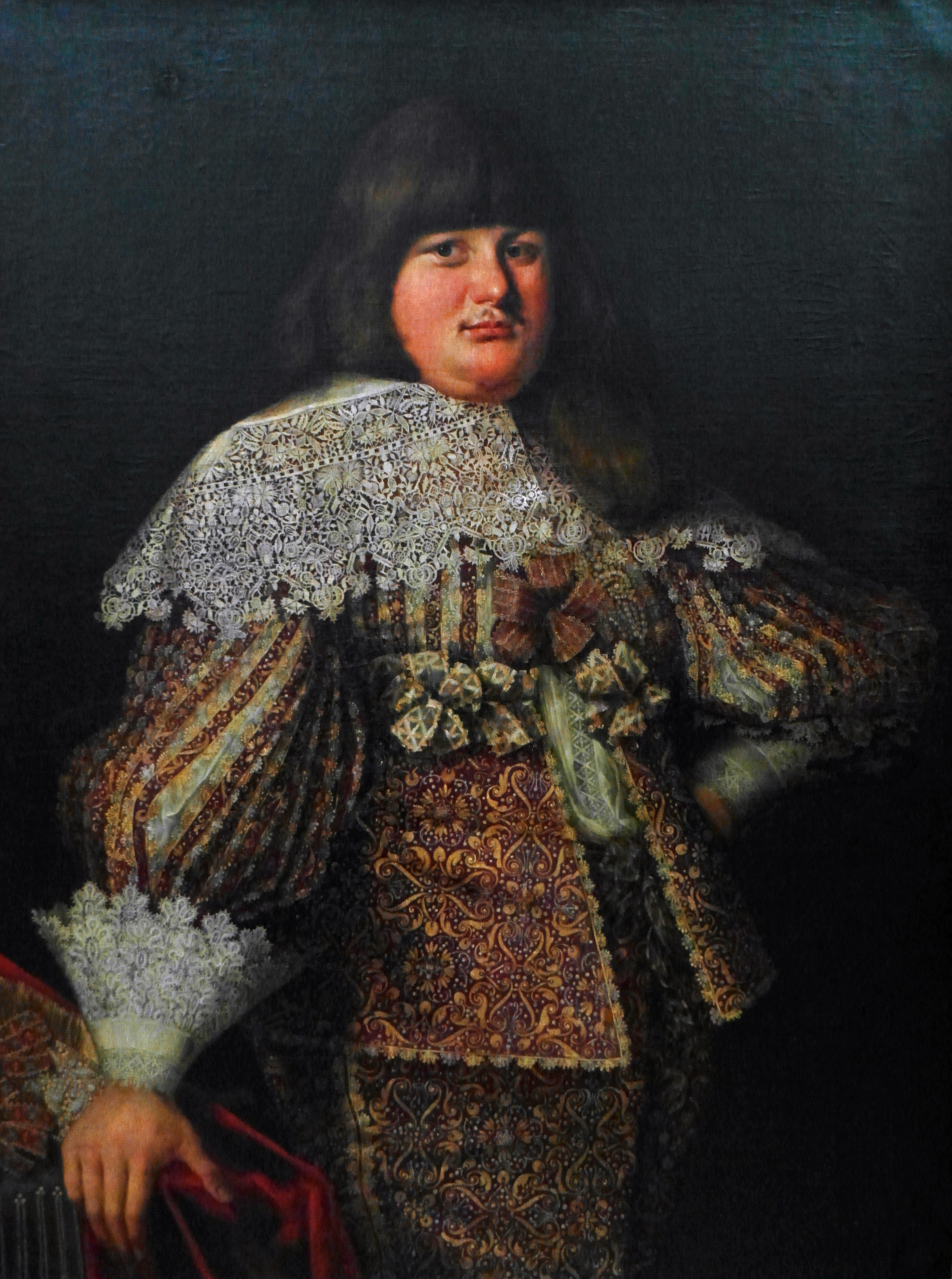 Władysław Dominik Zasławski-Ostrogskiby Bartłomiej Strobel